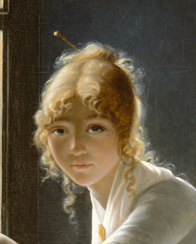 Portrait of a young woman, drawing. Thought to be a portrait of the artist herself.